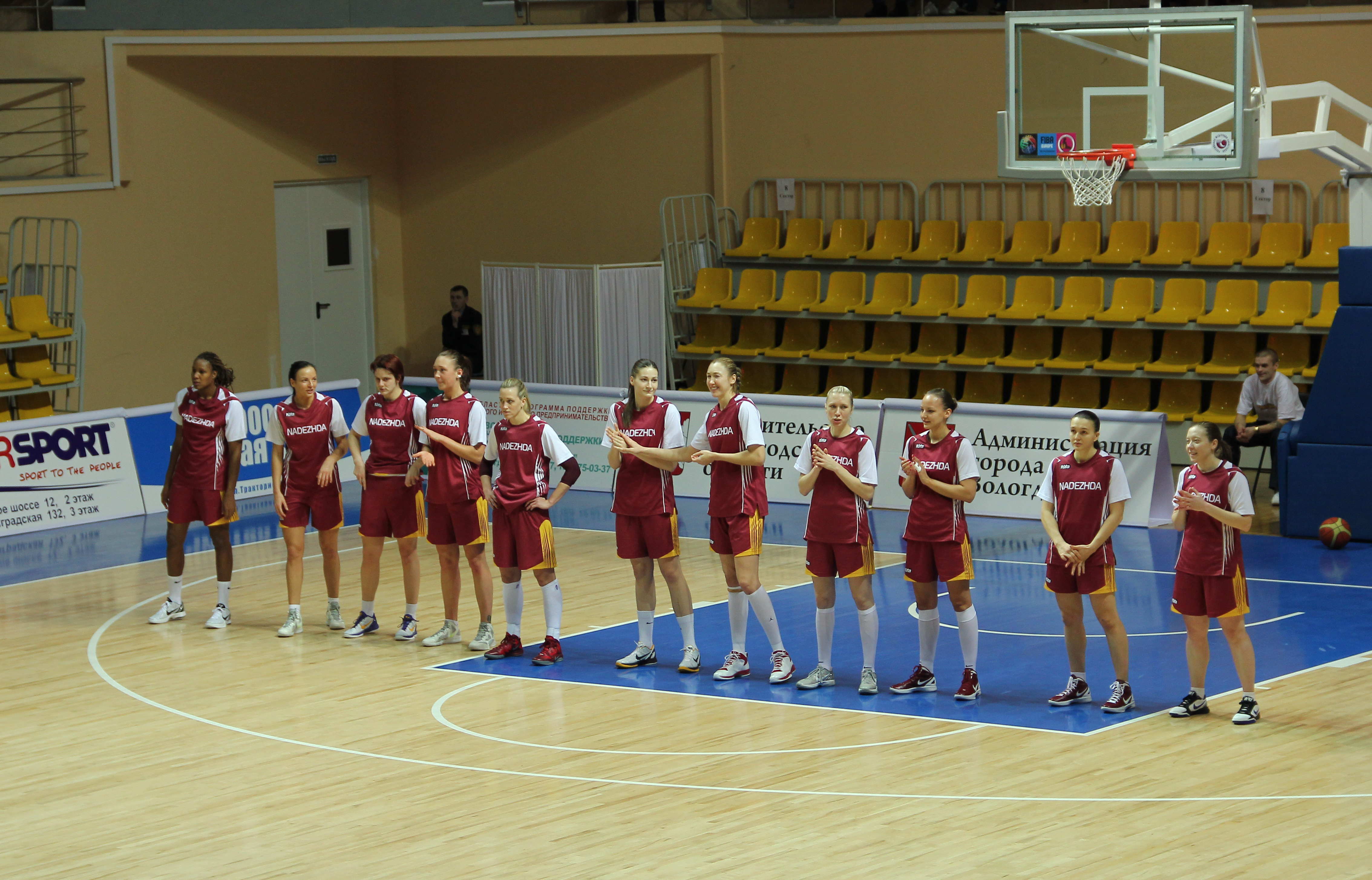 Russia, Women's basketball club «Nadezhda» (Orenburg)